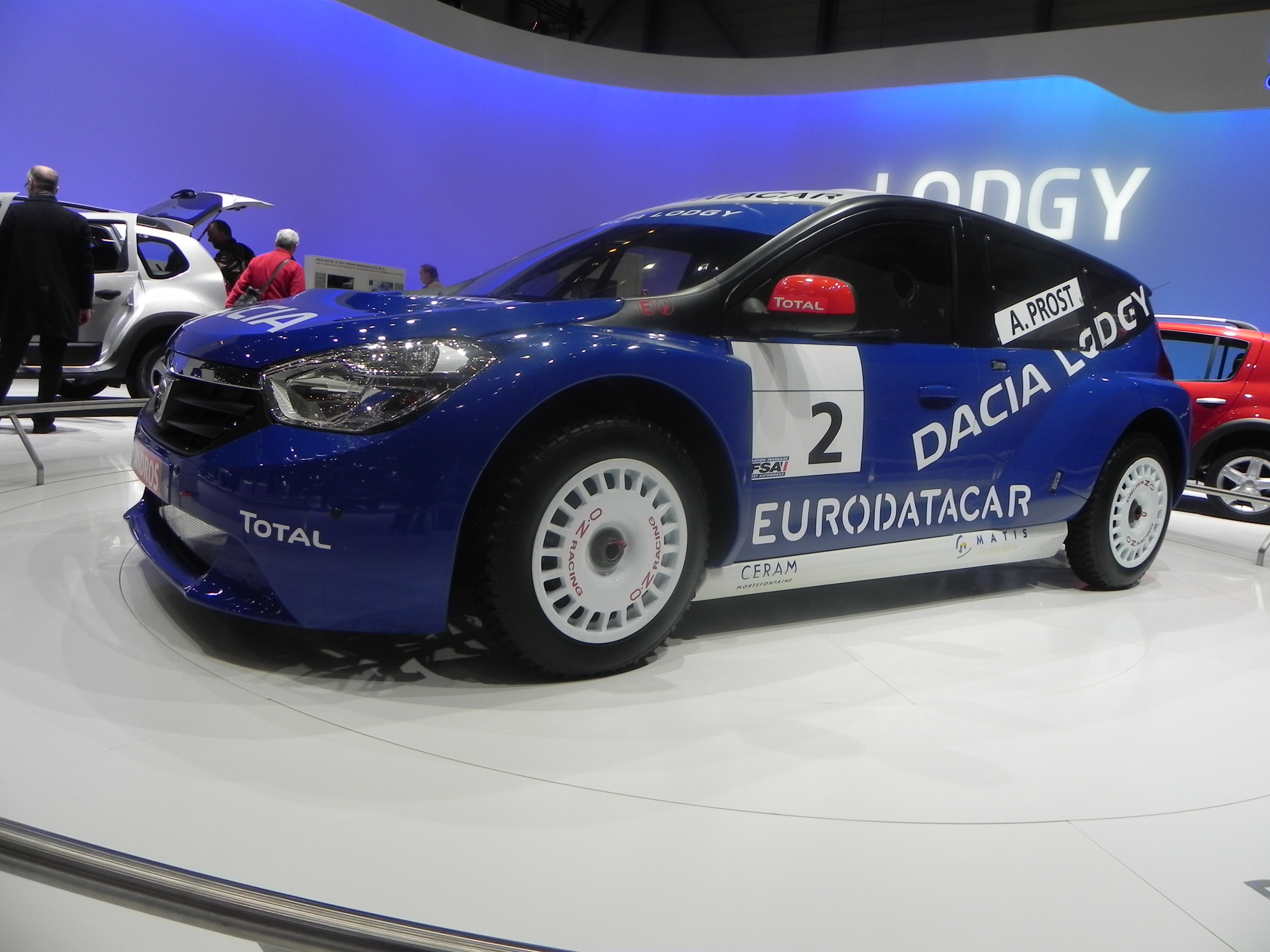 dacia dokker glace